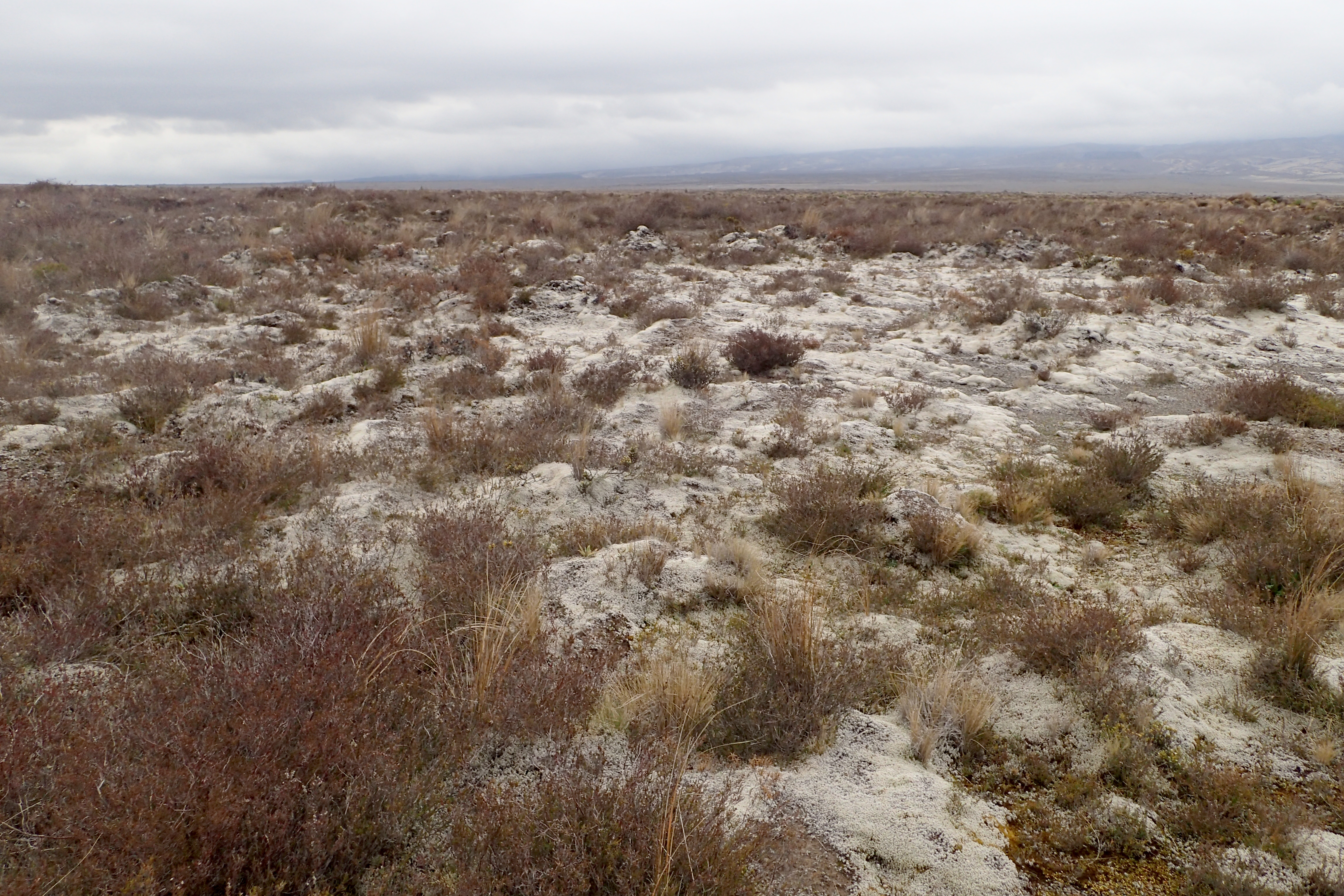 Calluna vulgaris on Rangipo Desert near Tukino Rd, Waikato (New Zealand)